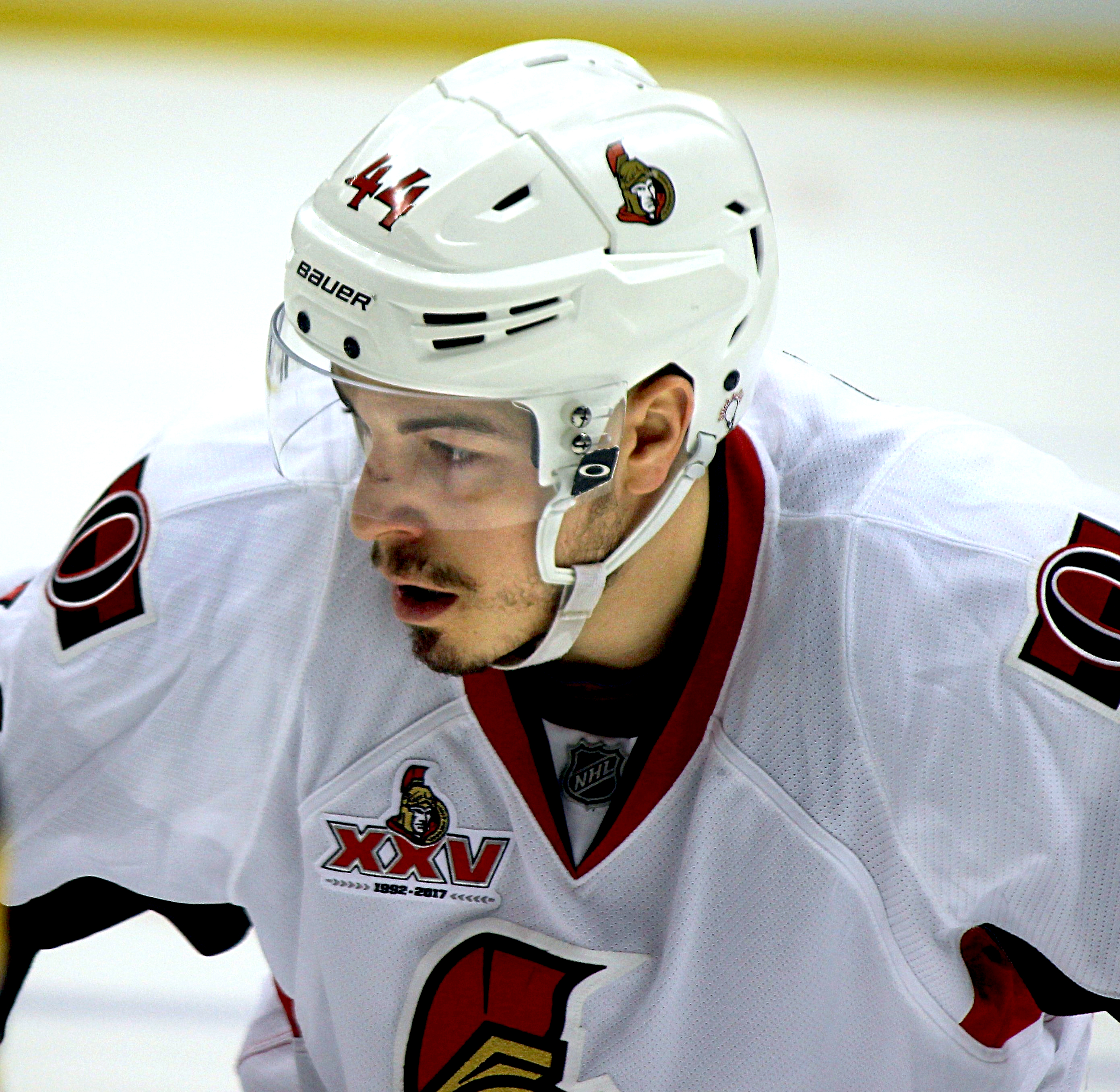 Ottawa Senators forward Jean-Gabriel Pageau during a playoff game against the Pittsburgh Penguins, May 13, 2017, at PPG Paints Arena in Pittsburgh, PA.